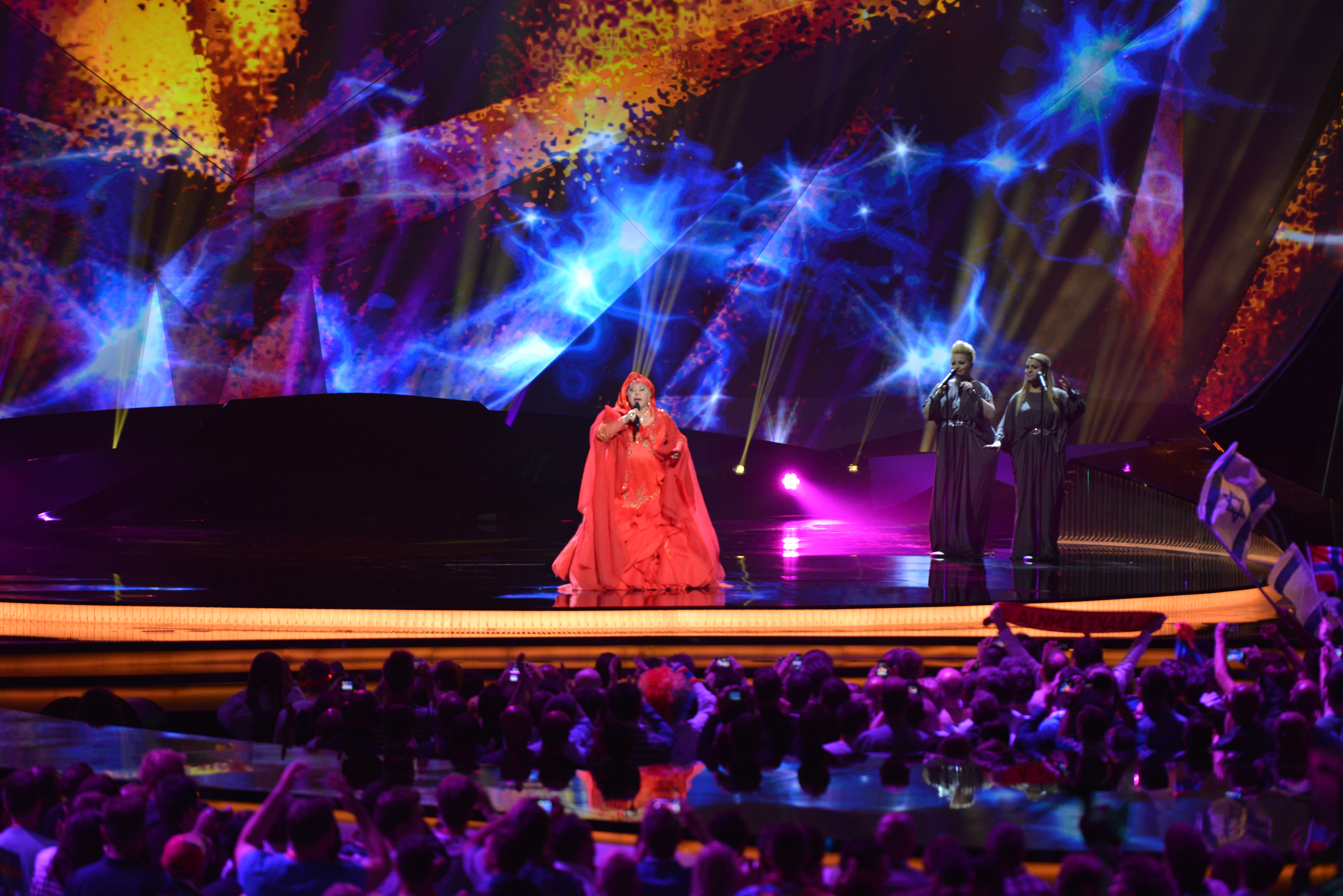 Esma and Lozano representing North Macedonia with the song "Pred da se razdeni" (Пред да се раздени) during the second dress rehearsal of the second semi final of the Eurovision Song Contest 2013 in Malmö. (Help translate this text)